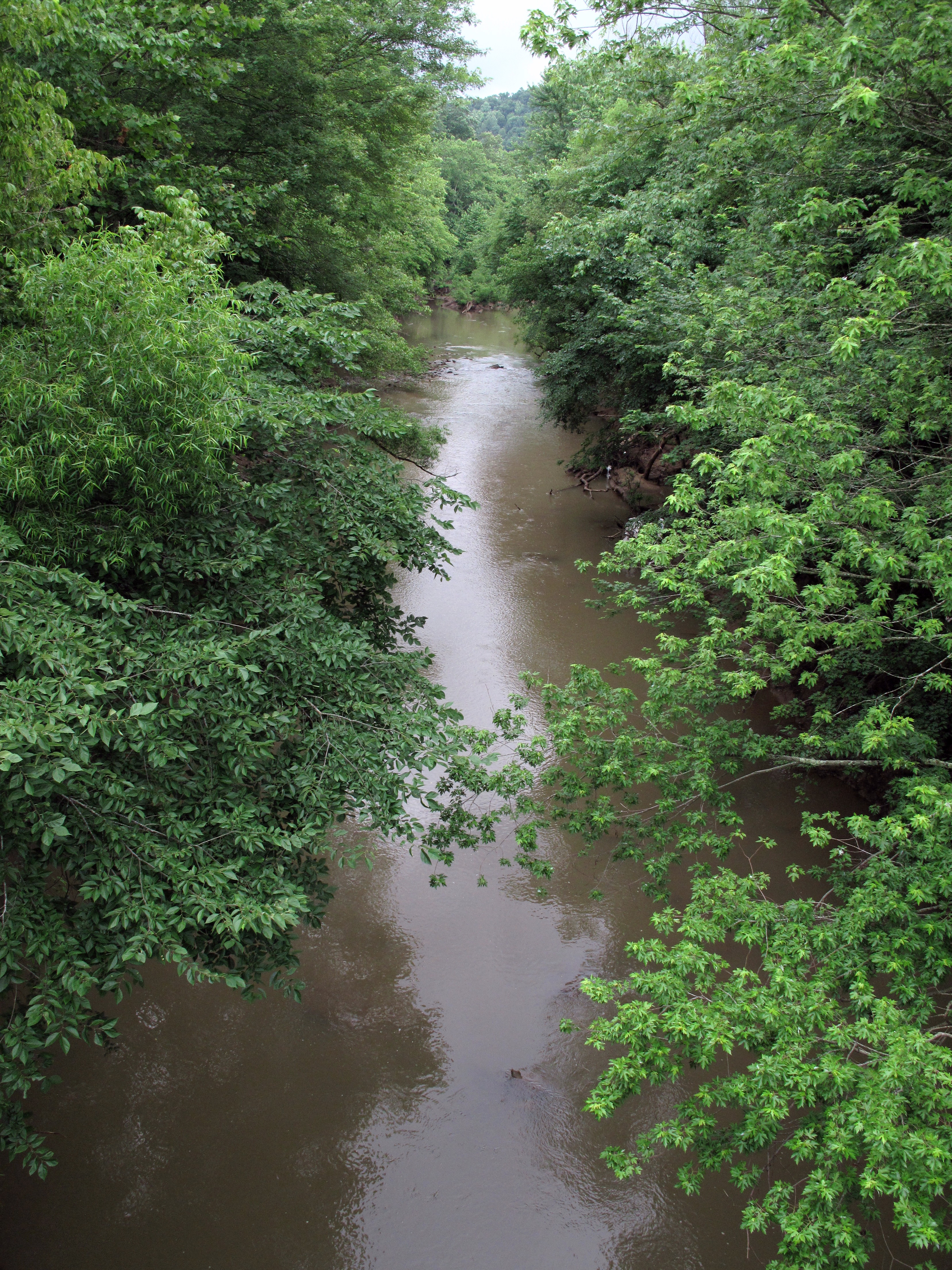 The West Fork Little Kanawha River near its mouth, as viewed upstream from County Route 9 in Creston, West Virginia.